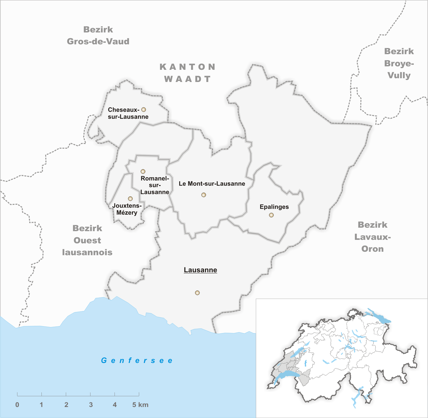 Municipalities of District Lausanne